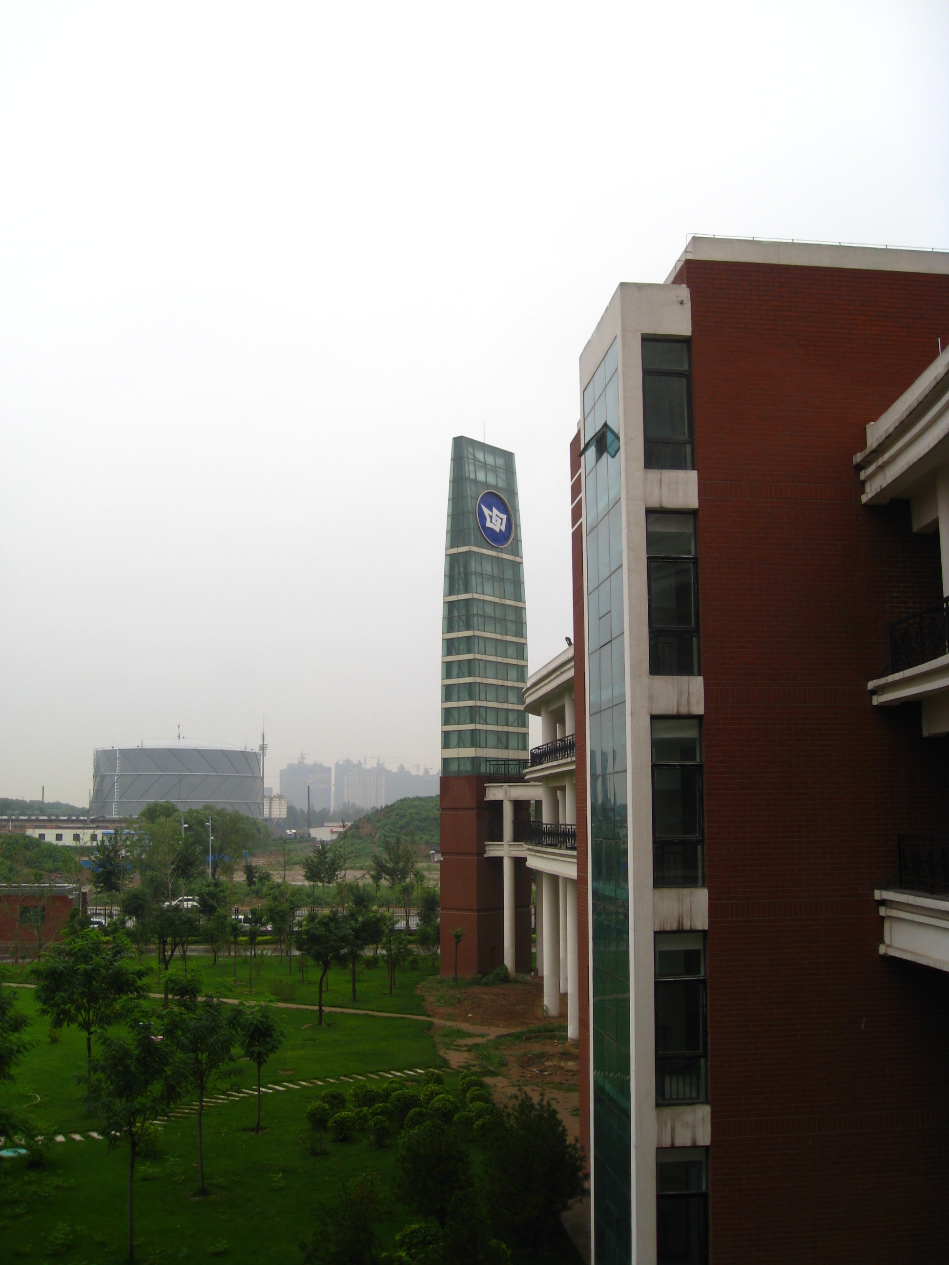 The new campus of Shanxi Experimental Secondary School in Taiyuan, Shanxi, P.R.China.